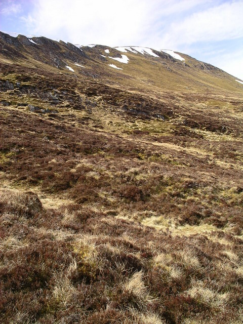 View to Carn Dearg In the middle of moorland looking up to Carn Dearg.